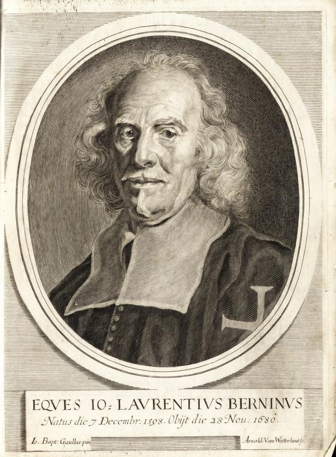 Page from the Vita del cavalier Gio. Lorenzo Bernino written by Domenico Bernini, published in 1713 in Rome by Rocco Bernabò, the frontispiece portrait of Gian Lorenzo Bernini was engraved by Arnold van Westerhout after a design by Giovanni Battista Gaulli